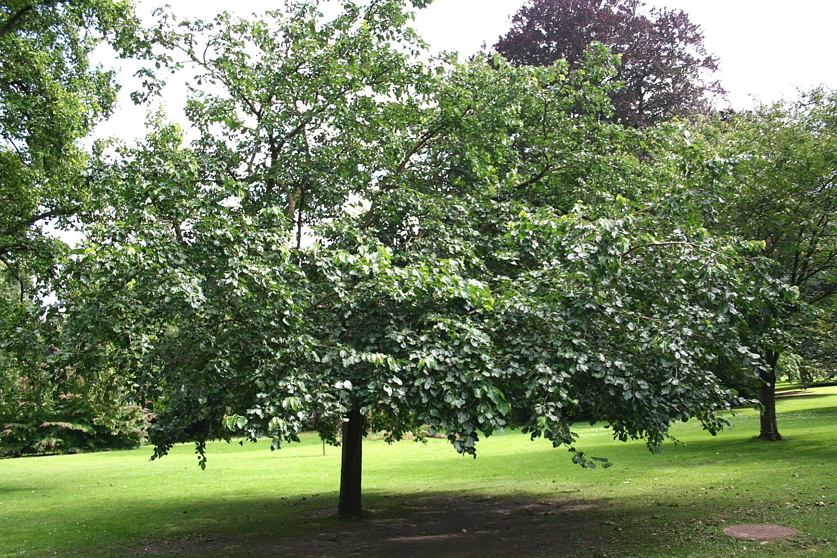 White Mulberry